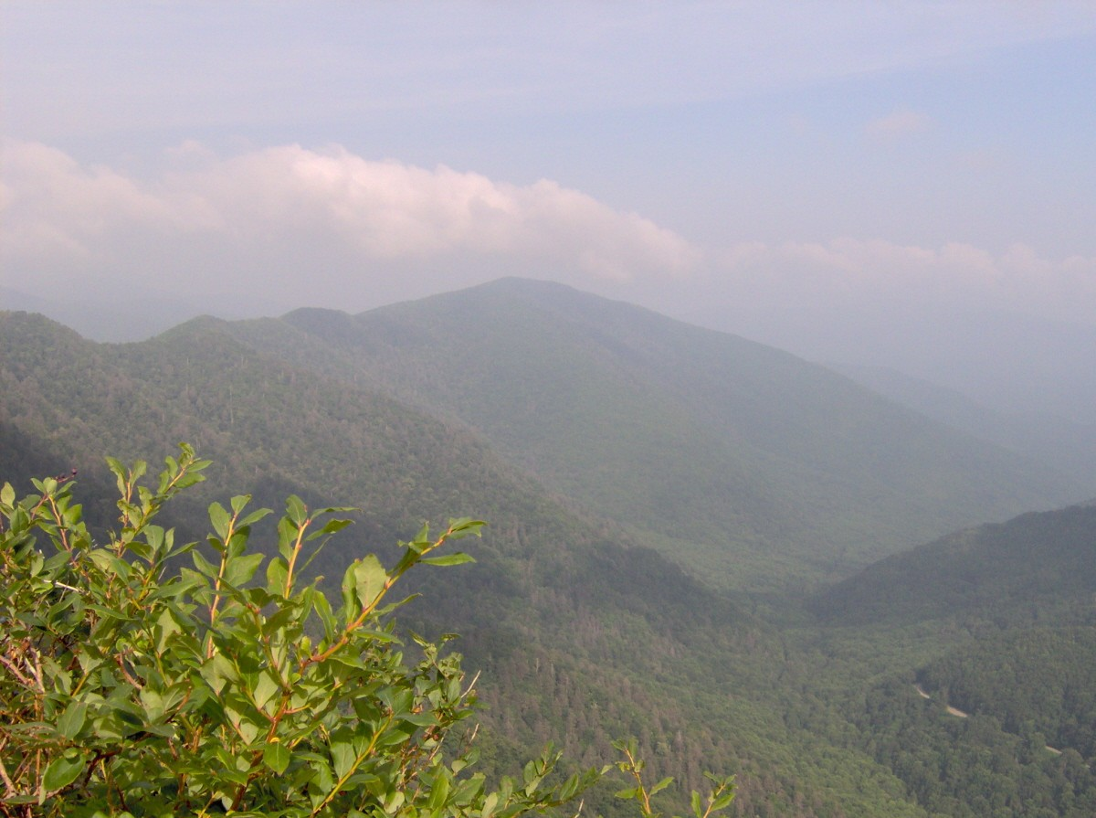 Sugarland Mountain, looking north from the Chimney Tops. The Sugarland Mountain massif runs north to south across the central Smokies, with its base near the Sugarlands Visitor Center. Its southern tip terminates on the northern slope of Mount Collins. The Sugarland Mountain Trail traverses the mountain.